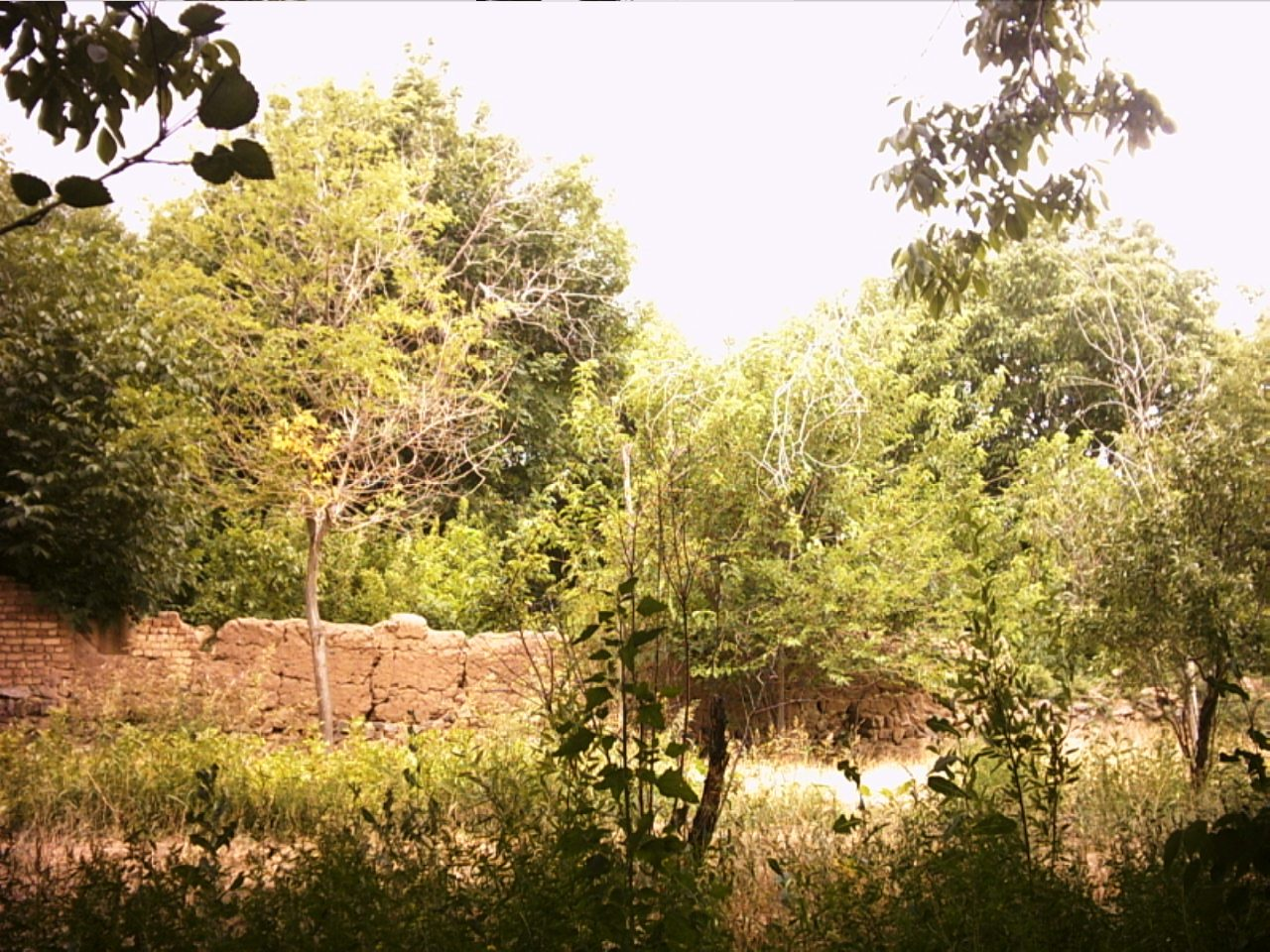 Qobadbezan, a village in Kahak-Qom Province-Iran